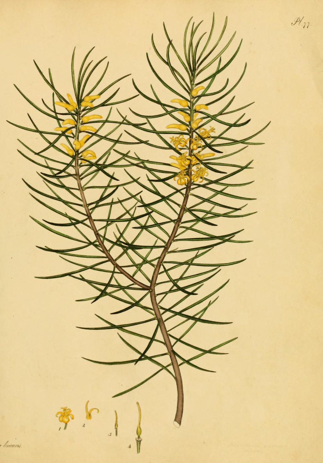 The leaves, flowers, and flower structure of the Australian plant Persoonia linearis Andrews.